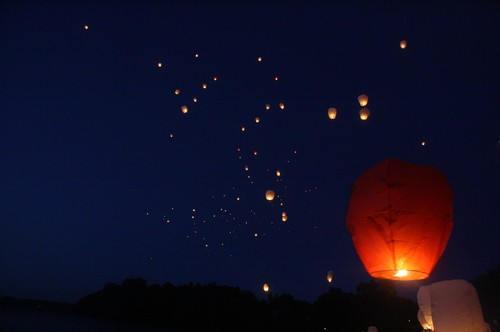 Votive in the sky to honor Stefan Live one year after the plane crash